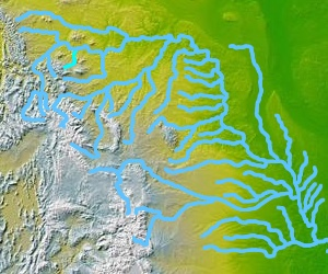 Judith River — in Montana. Credits ©2004 Matthew Trump